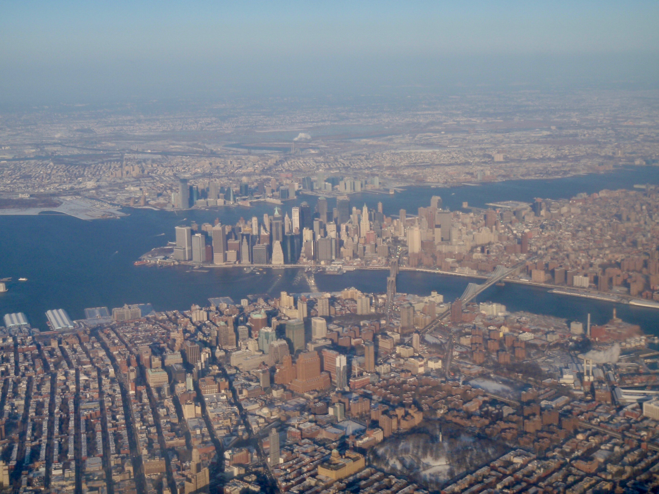 Downtown Manhattan as seen from a plane.